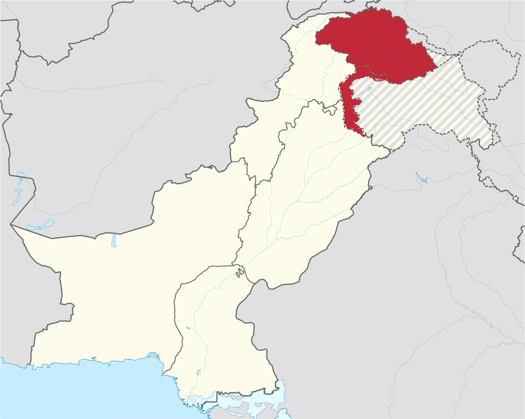 Location of Pakistan administered Kashmir in the region. Sources used to create the map are CNN: Kashmir Fast Facts and BBC: Kashmir profile